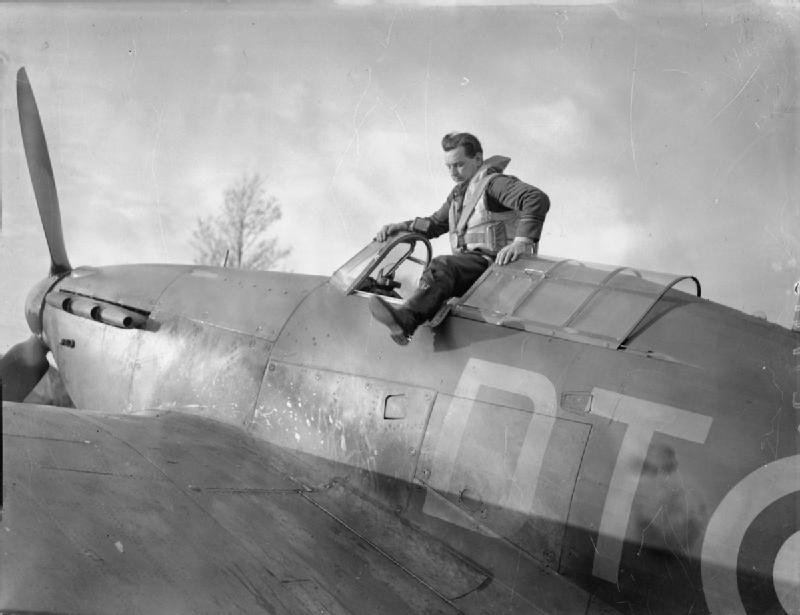 Royal Air Force Fighter Command, 1939-1945. Flight Lieutenant H P "Cowboy" Blatchford of No. 257 Squadron RAF climbing out of his Hawker Hurricane Mark I at Martlesham Heath, Suffolk.